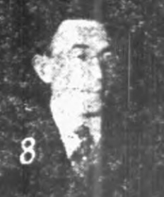 Portrait of New York assemblyman Joseph A. Whitehorn